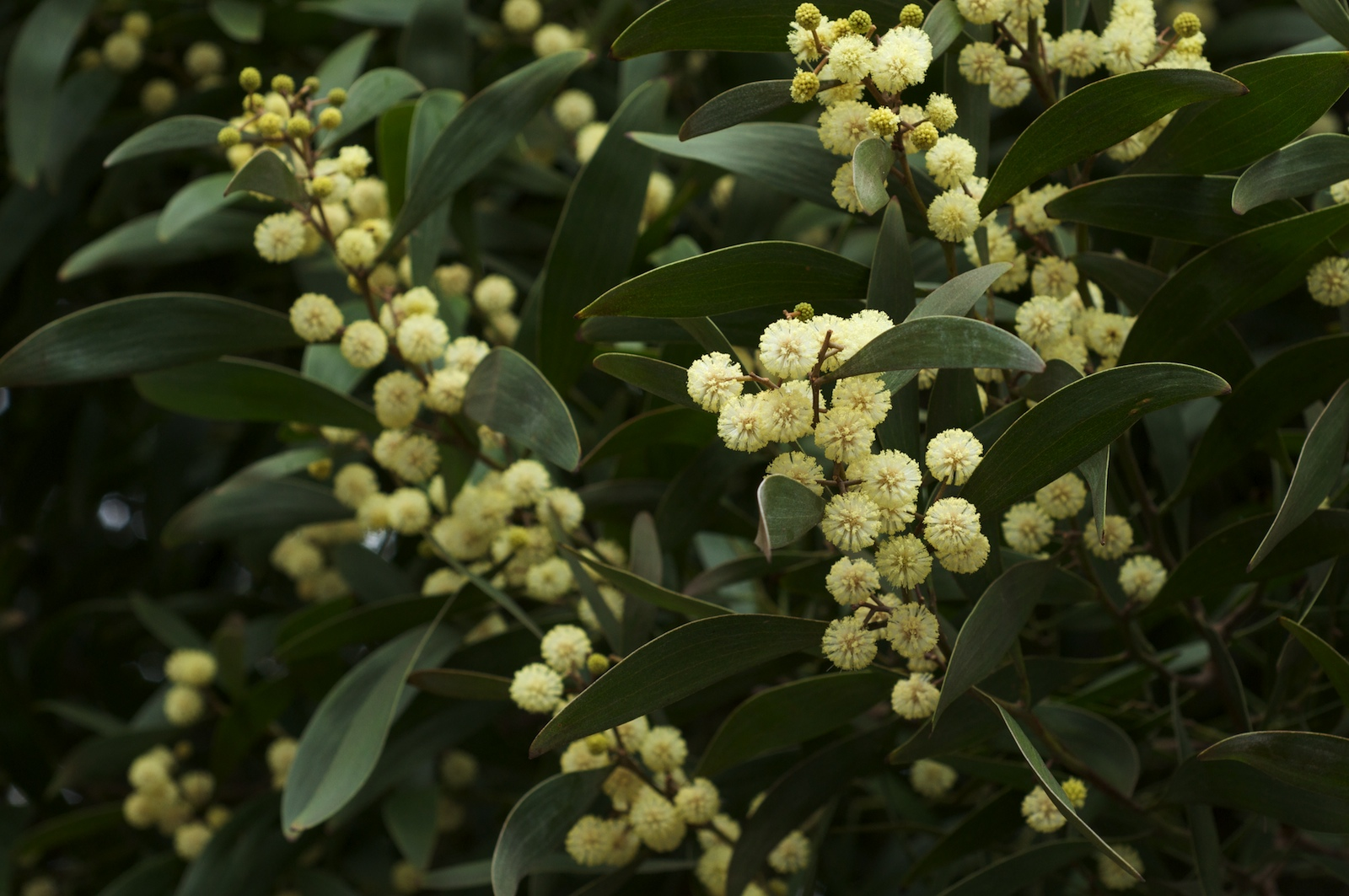 Growing as a street tree in San Francisco